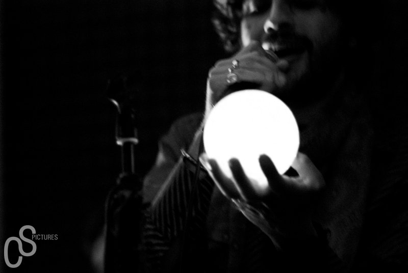 Leitmotiv live, 2011